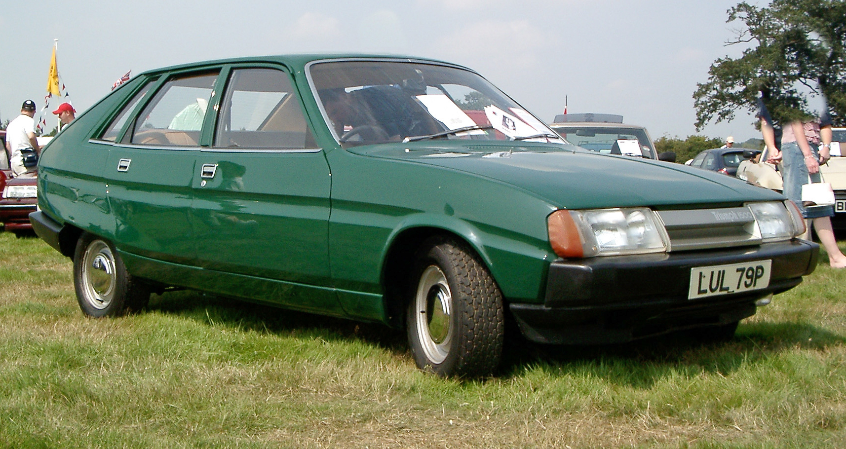 Prototype Triumph SD2, from the early to mid-seventies.